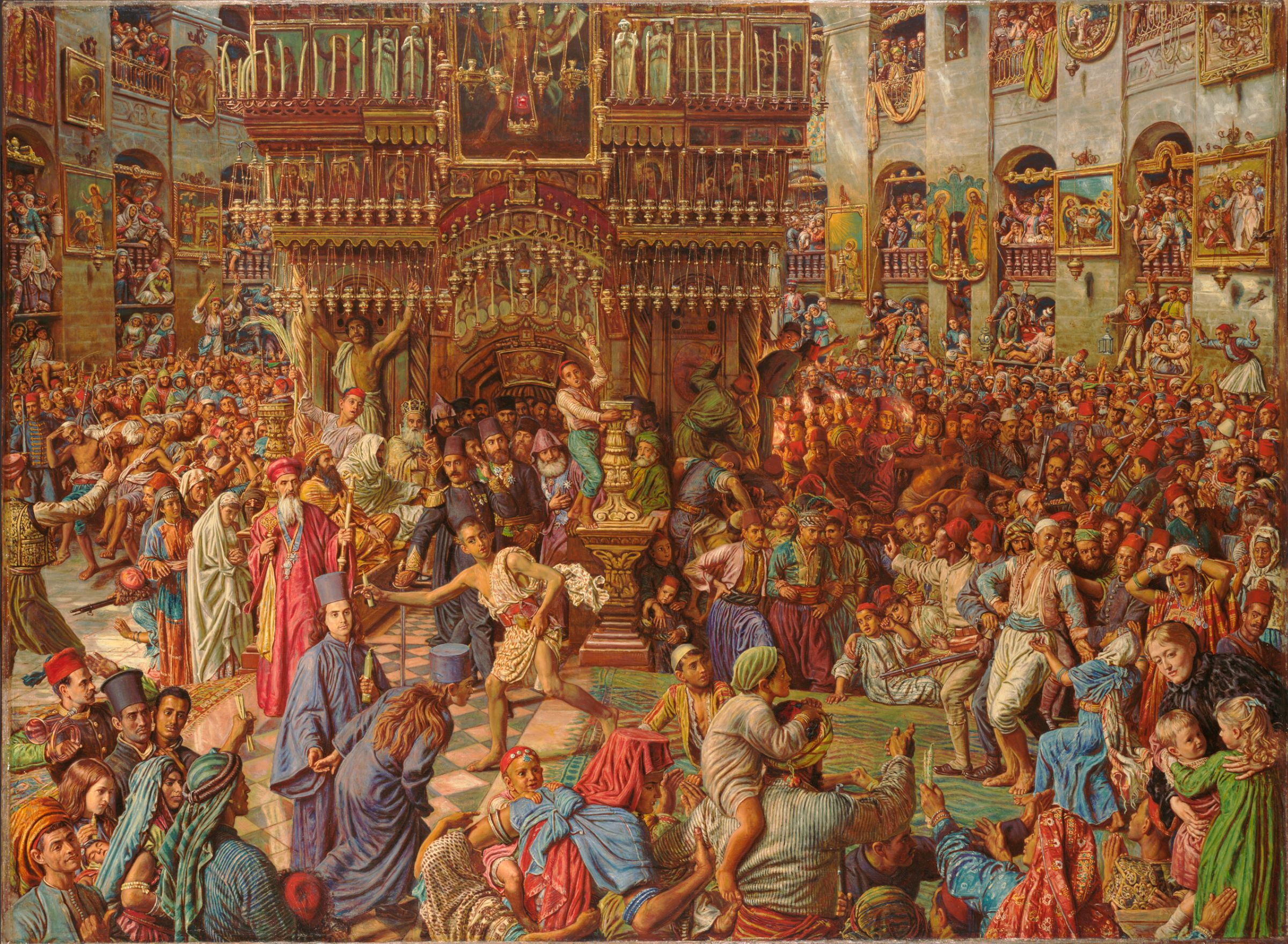 Object: 1942.198 William Holman Hunt, British (London, England 1827 - 1910 London, England), Title: The Miracle of the Sacred Fire, Church of the Holy Sepulchre. Other Titles: Alternate Title: The Miracle of the Sacred Fire, Church of the Holy Sepulchre in Jerusalem / The Miracle of the Holy Fire